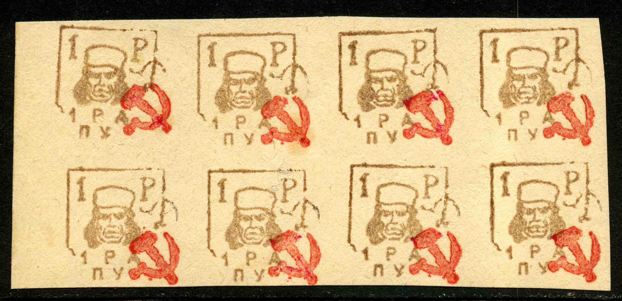 Post stamps of Ukraine